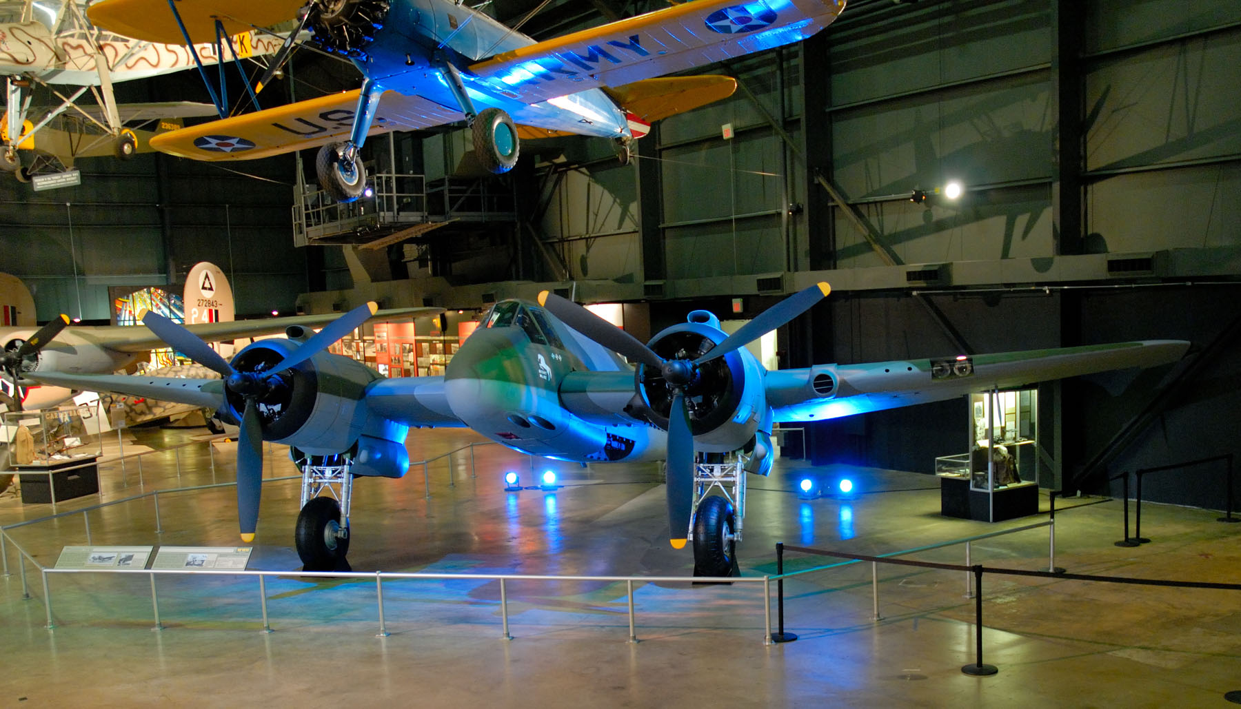 The collection's Bristol Beaufighter I in the Air Power Gallery at the National Museum of the United States Air Force, at Dayton, Ohio.